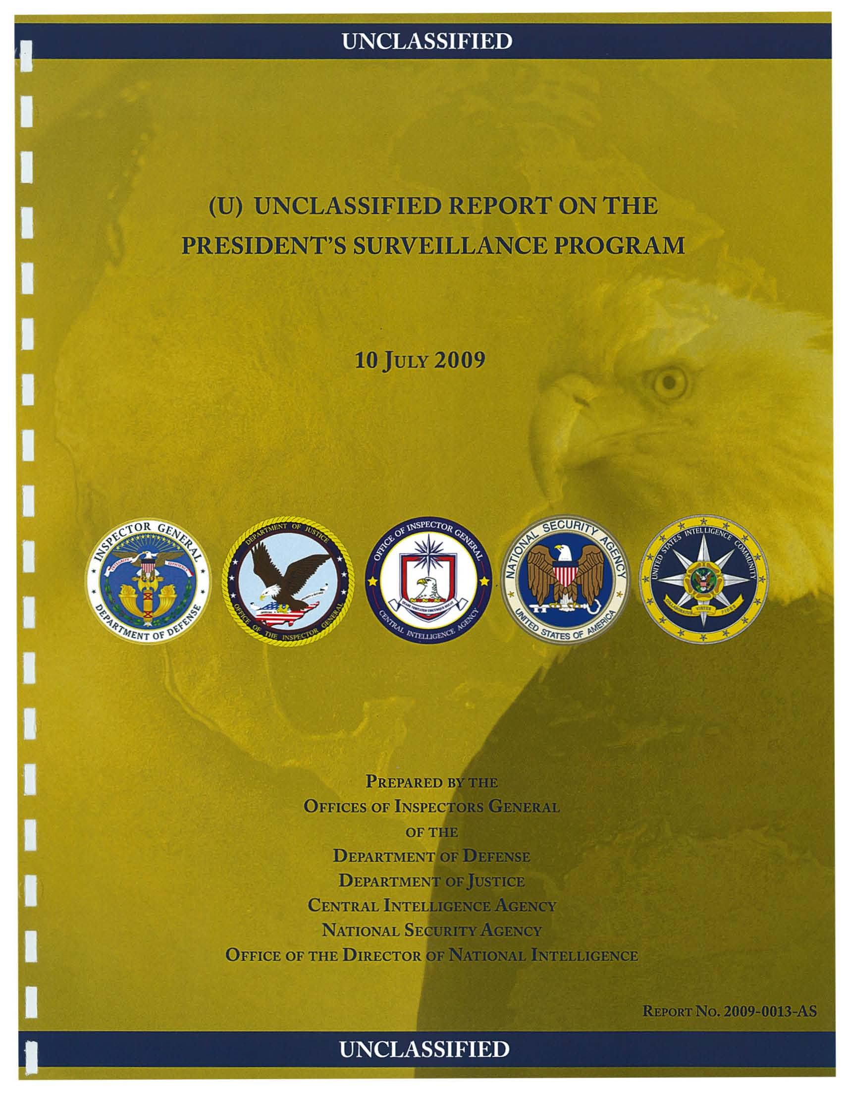 Cover of the 10 July 2009 Unclassified Report on the President’s Surveillance Program prepared by the Inspectors General of the DoD, DOJ, CIA, NSA, and ODN as required under the w: Foreign Intelligence Surveillance Act of 1978 Amendments Act of 2008